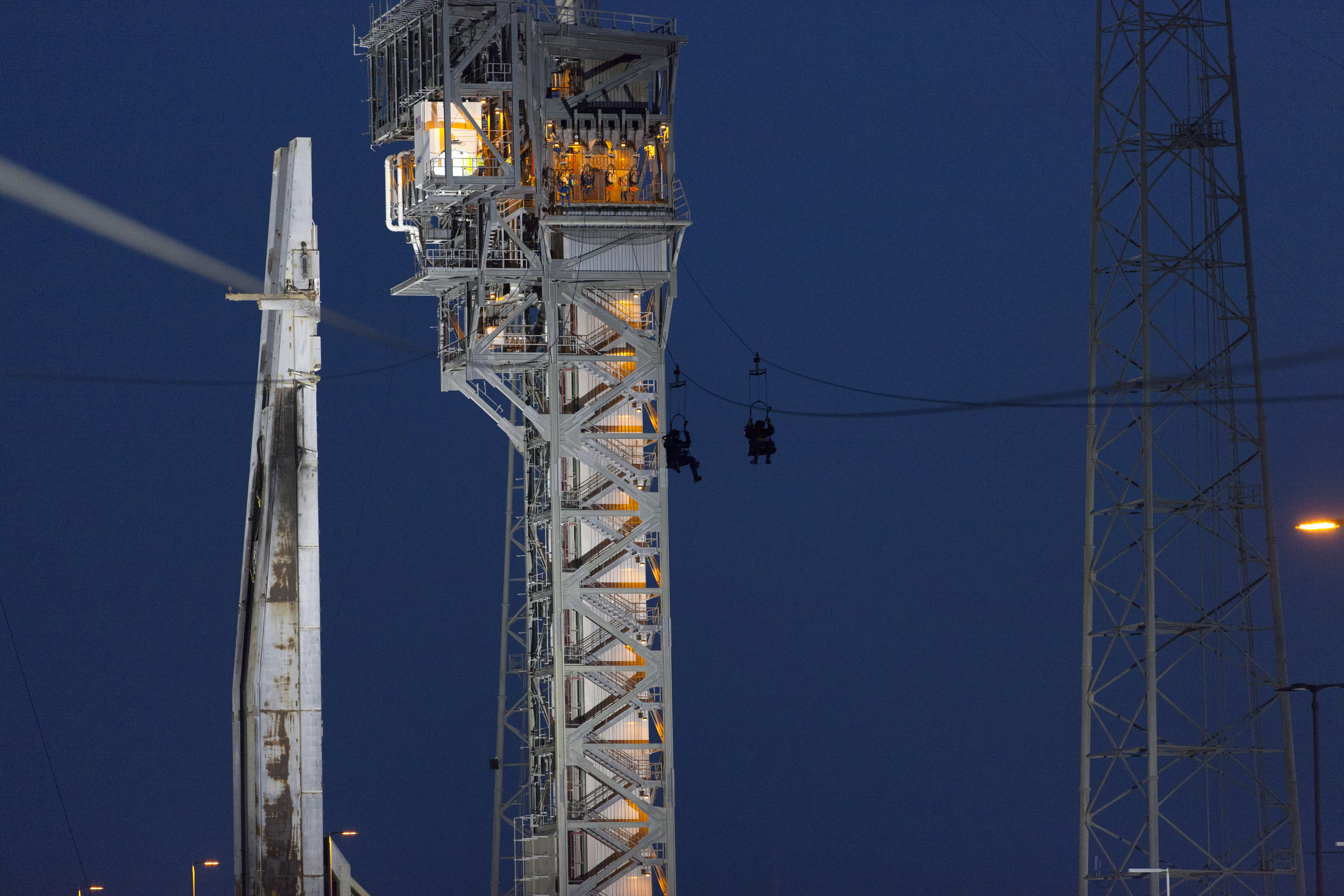 Commercial Crew astronauts participate in a Boeing/United Launch Alliance (ULA) emergency egress system demonstration at Cape Canaveral Air Force Station’s Launch Complex 41 in Florida on June 19, 2018. The emergency egress system features folding seats attached to slide wires. In the unlikely event of an emergency prior to liftoff on launch day, each person on the Crew Access Tower would get his or her own seat and slide more than 1,300 feet to a safe area.